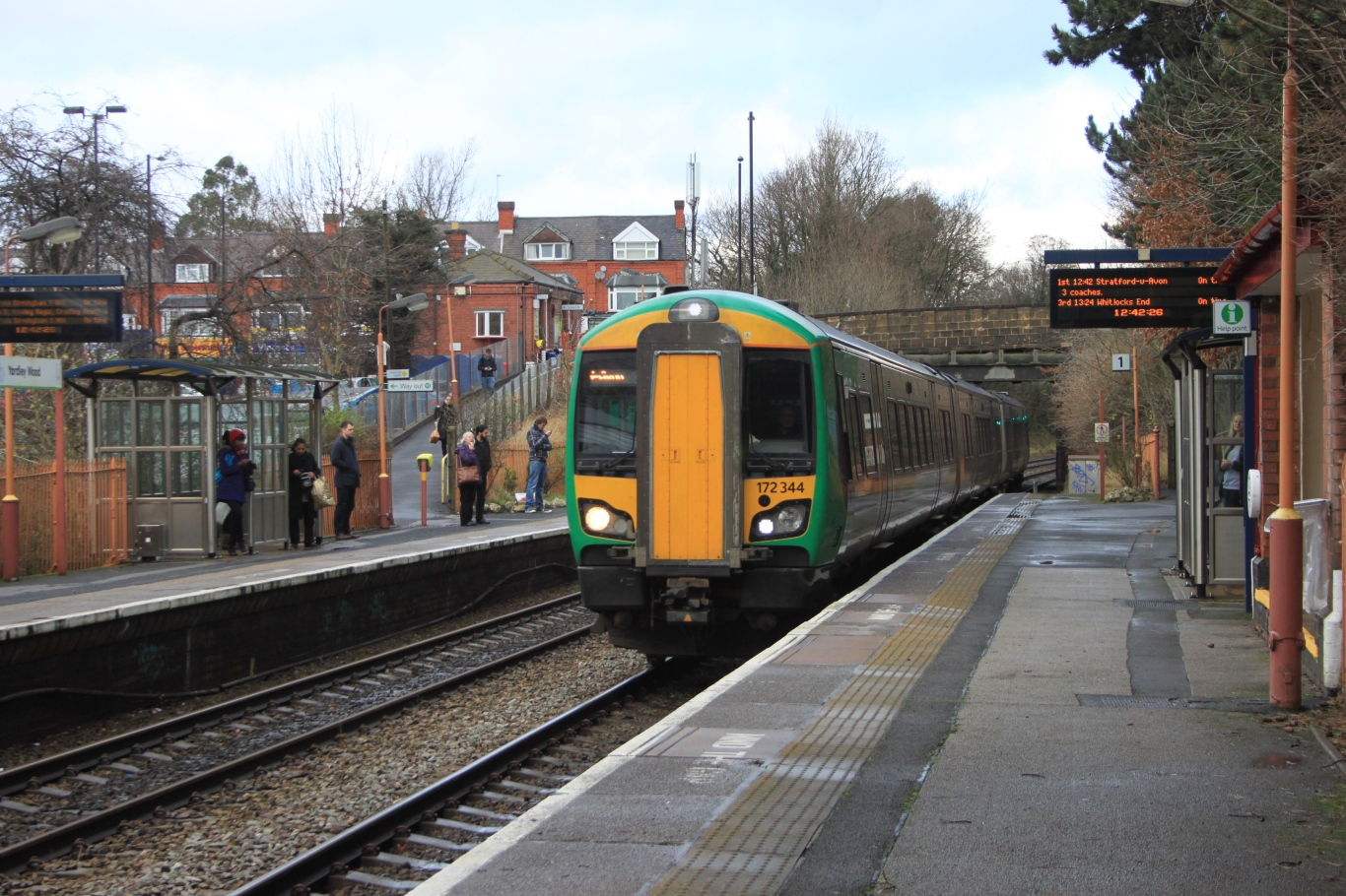 London Midland's 172344 arrives at Yardley Wood with a train to Stratford-upon-Avon.